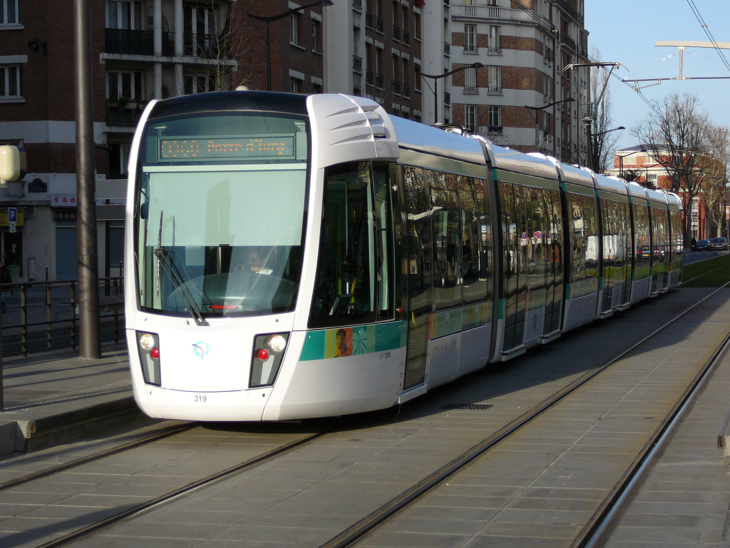 Paris Tramway T3 at Brancion station - Tramway T3 à Paris, station Brancion